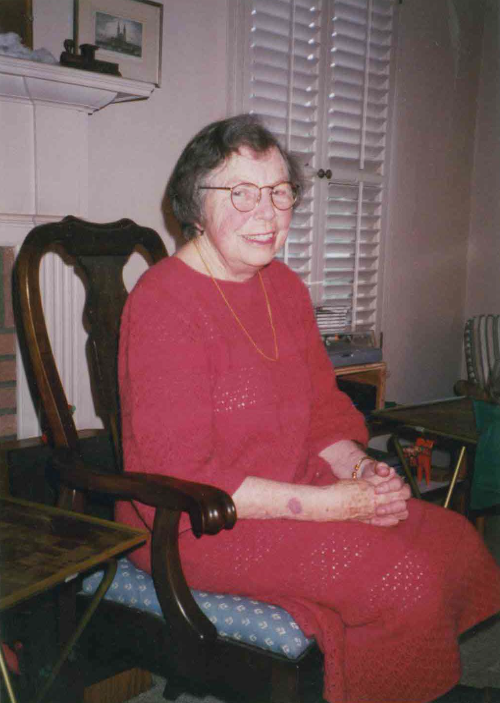 Photo of Statistician Olive Jean Dunn